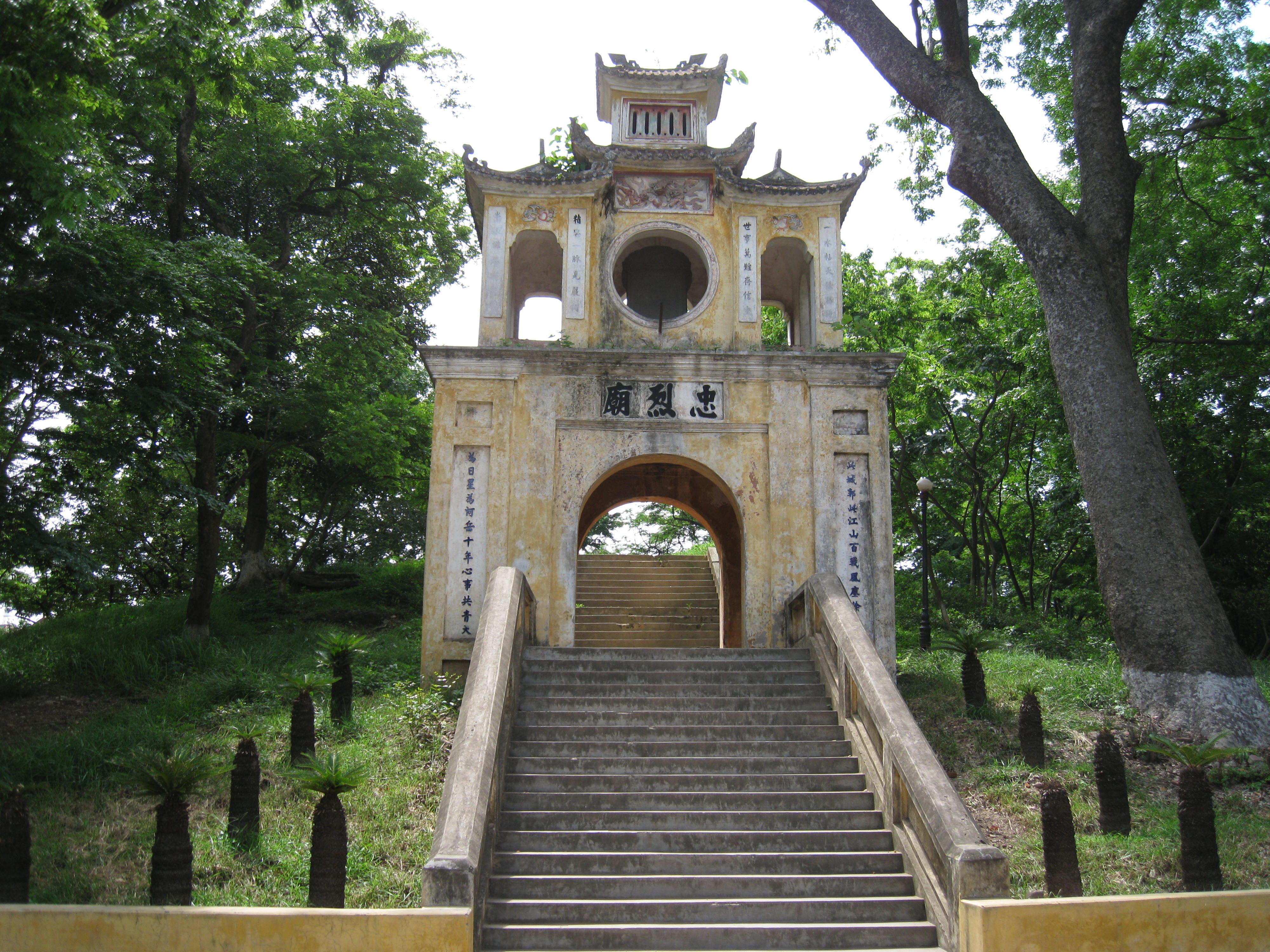 One of the duilian on the gate of Trung liệt miếu (ie. Temple of Royalty and Strength) in Gò Đống Đa (Đống Đa Mound), Hanoi.